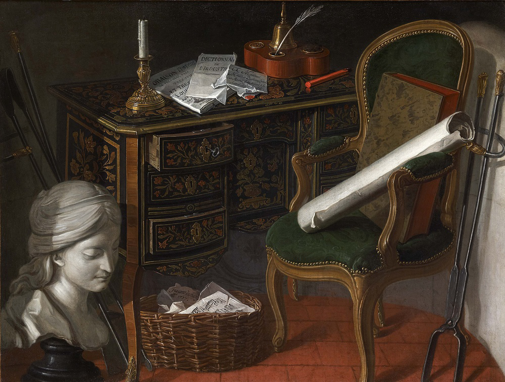 Bust of a woman by a wicker basket filled with sheet music, a writing desk with inkwell and a chair, by Nicolas Henri Jeaurat de Bertry. 1775 & 1777. Oil on canvas. both: 89.5 x 117.5 cm / 35.3 x 46.3 in.